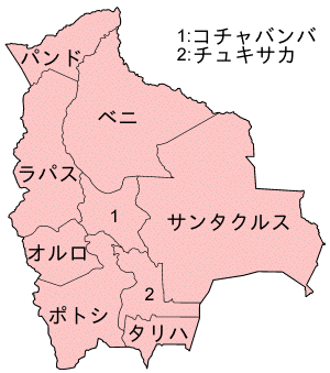 Map of the departments of Bolivia, named in Japanese